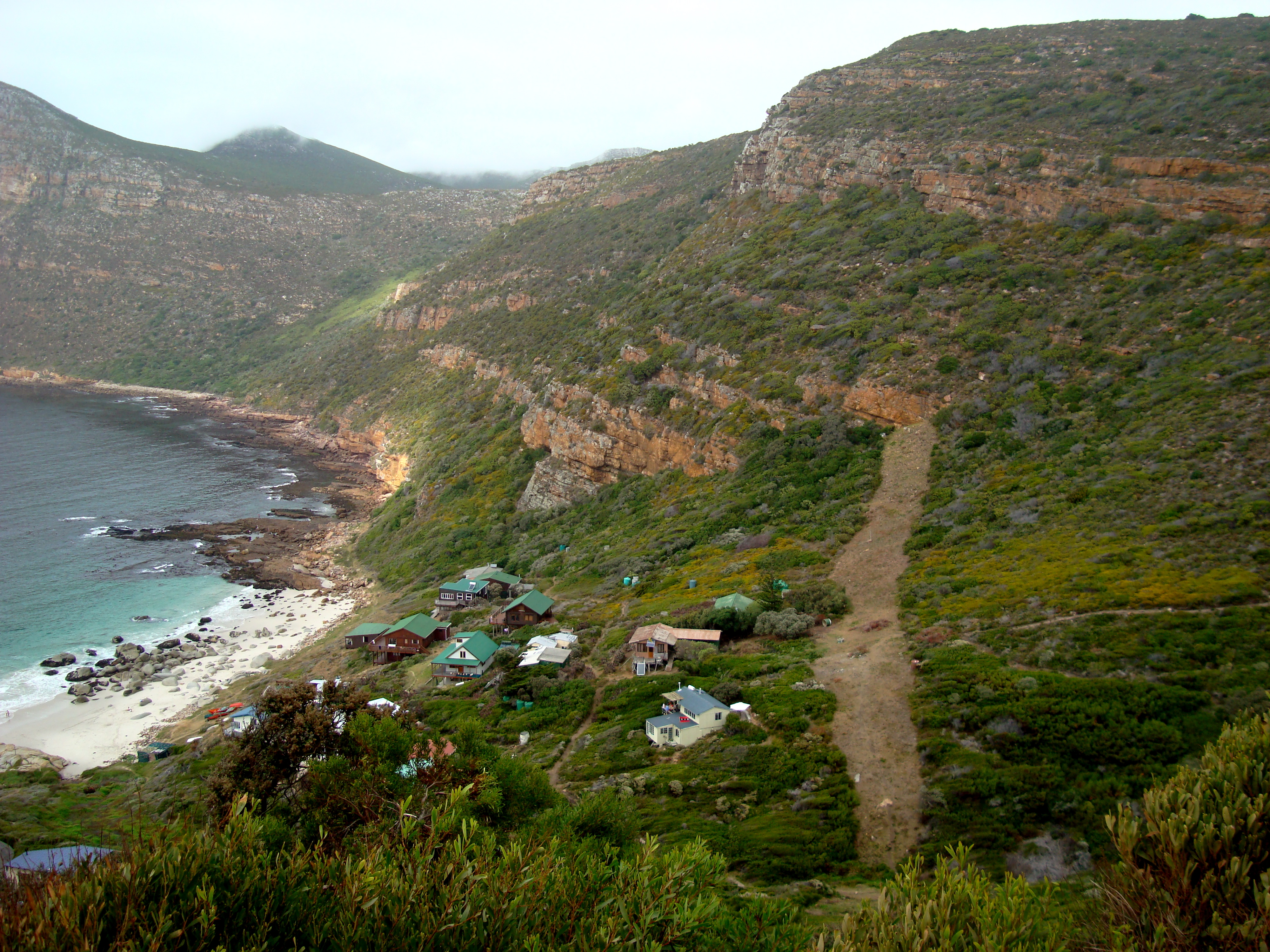 Off to the Cape of Good Hope, SA.